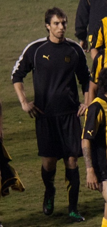 Fabián Carini after the 2011 Copa Libertadores final, which he played for Peñarol.